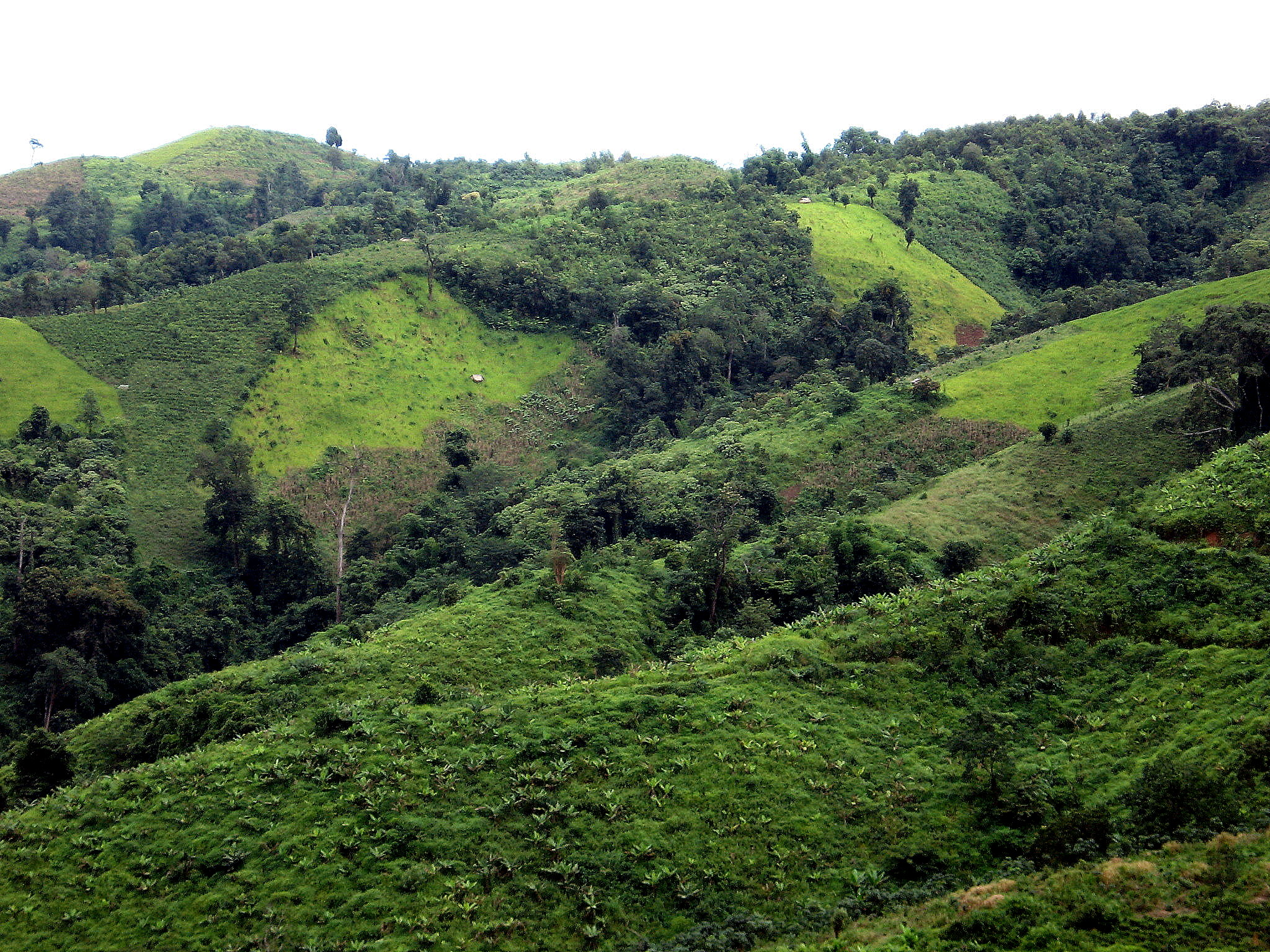 Steep hillsides are covered in a patchwork of mature forest, regrowing forest, fallow/abandoned cropland, and upland rice. Location: southern Yunnan Provice, PRC.